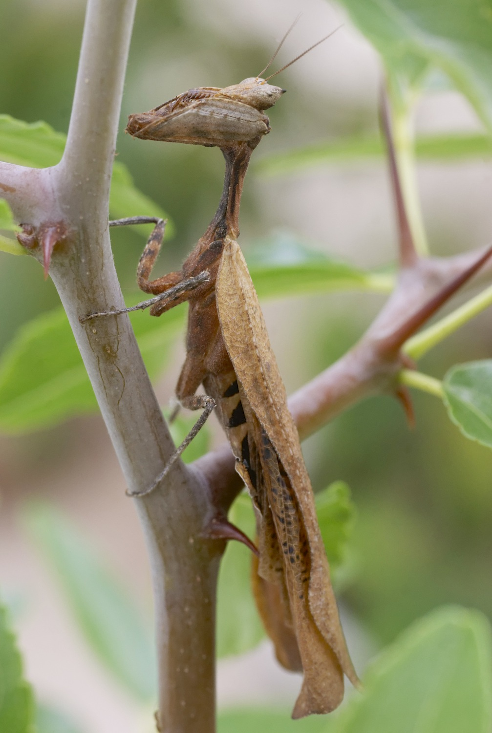 View from above on a male Dead Leaf Mantis, probably Acanthops fuscifolia